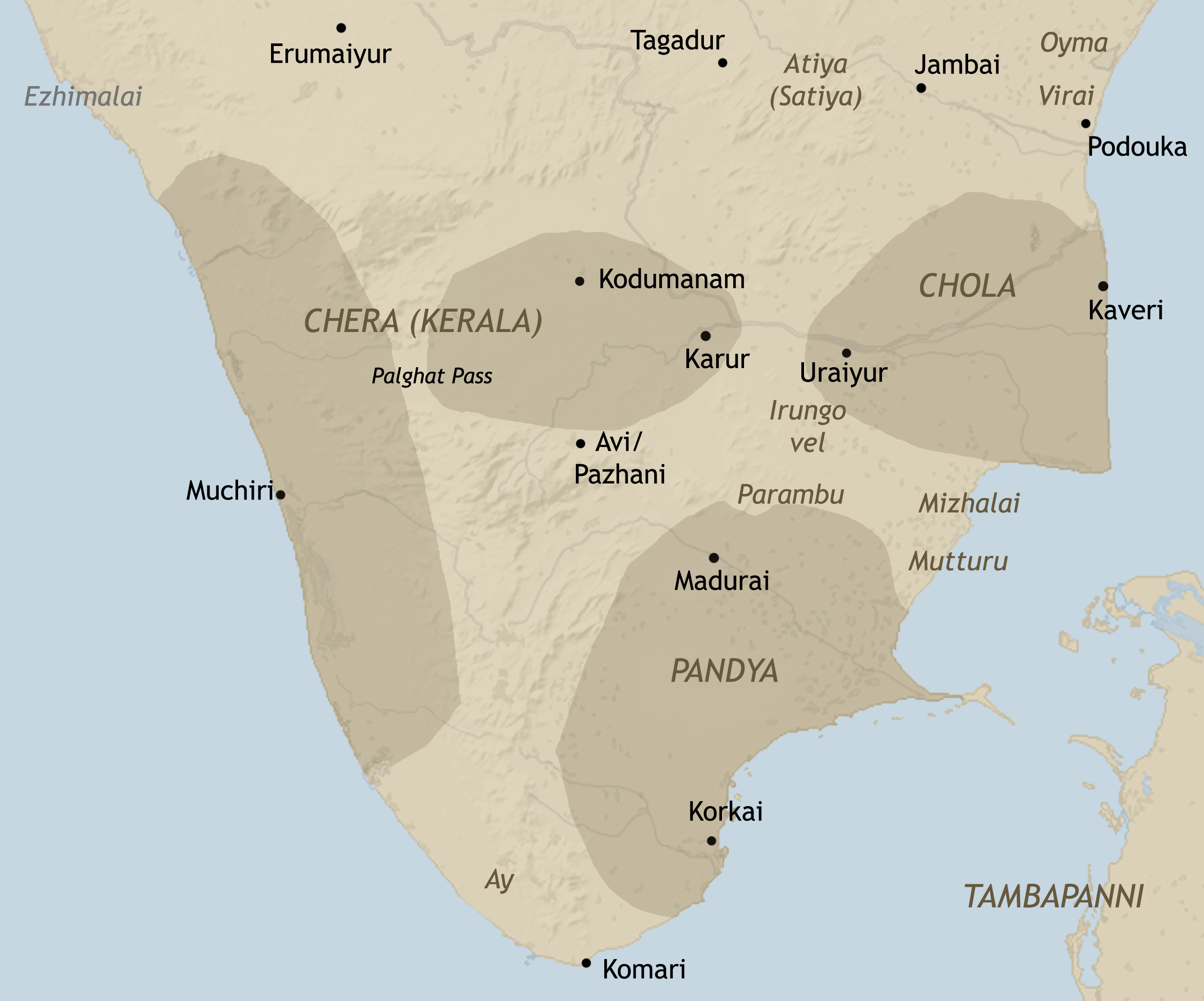 An approximate representation of early historic south India Source: Antecedents of the State Formation in Early South India by Rajan Gurukkal in State and society in pre-modern South India